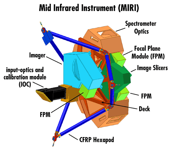 JWST MIRI noCryostat